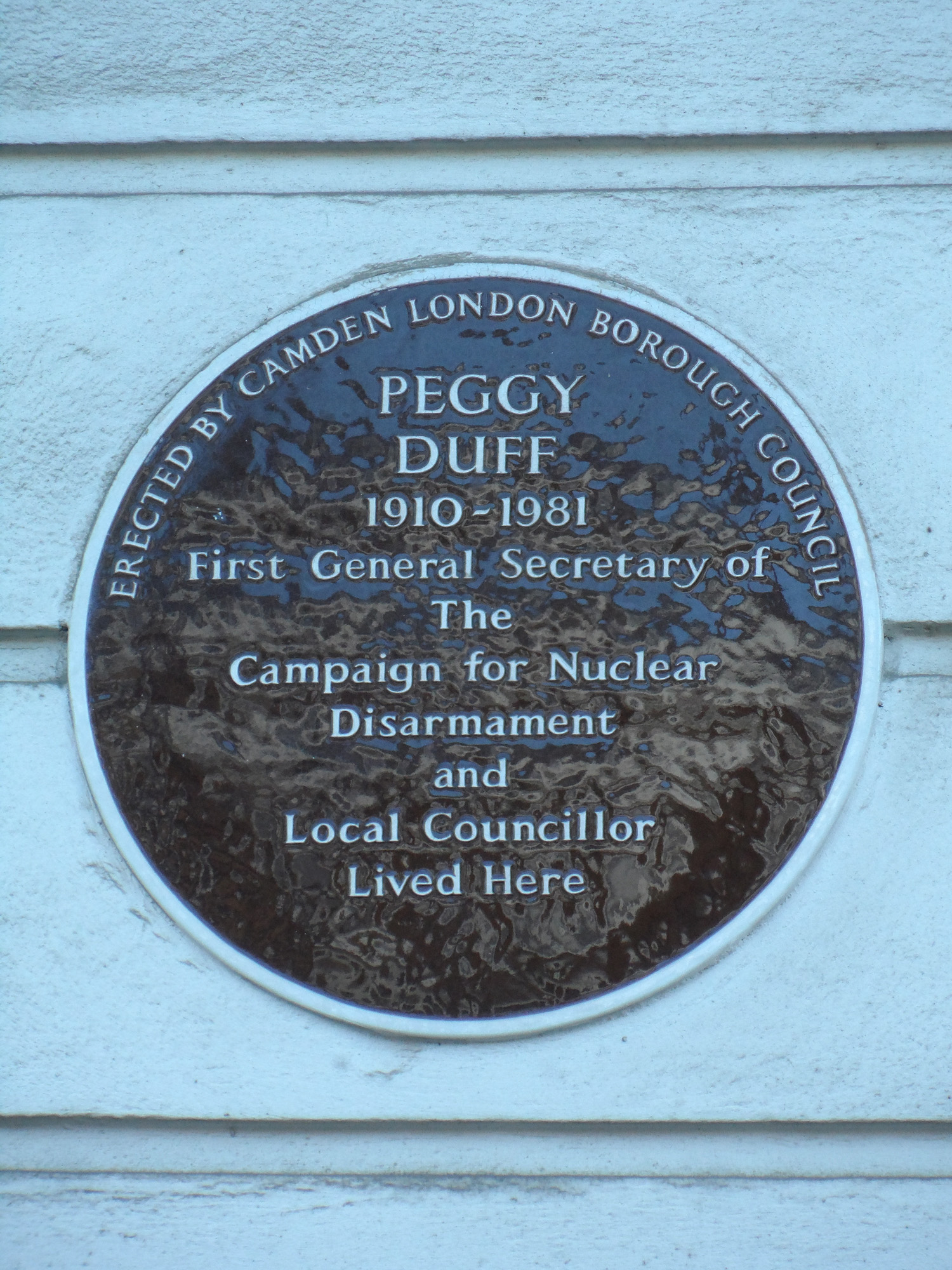 Brown plaque erected by by London Borough of Camden